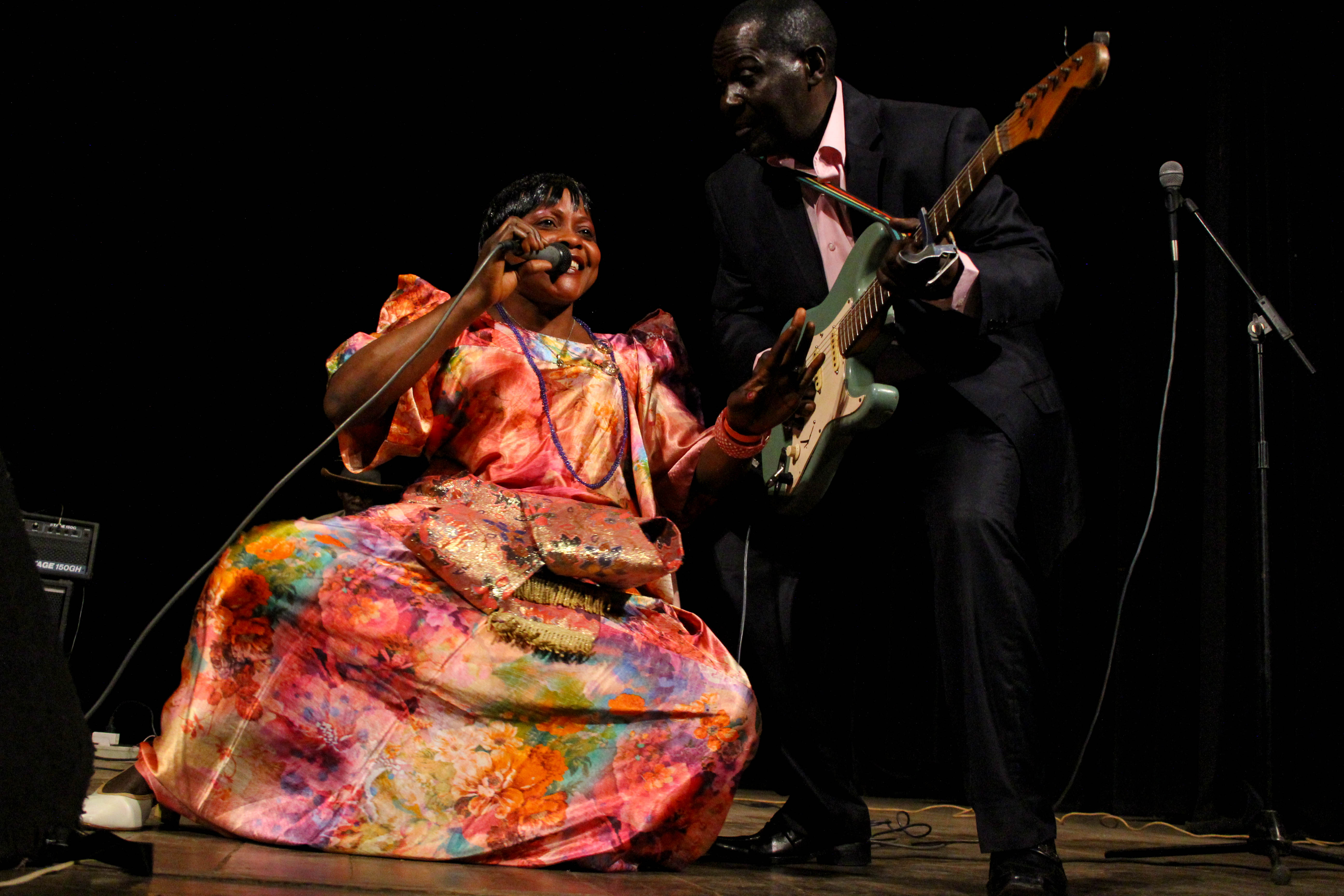 Ugandan local band entertaining a crowd This is an image of music and dance from Uganda